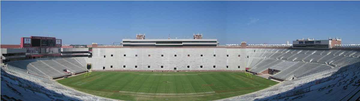 Doak Campbell Stadium in Tallahassee, Florida--Home of the Florida State University Seminoles